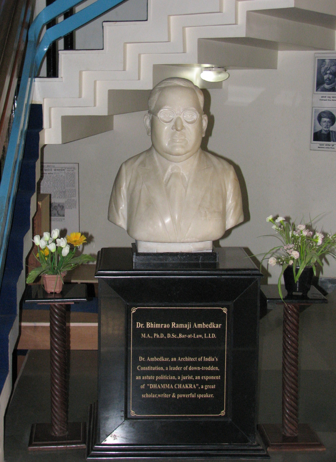 Bust of Dr. Ambedkar at Ambedkar Museum in Pune